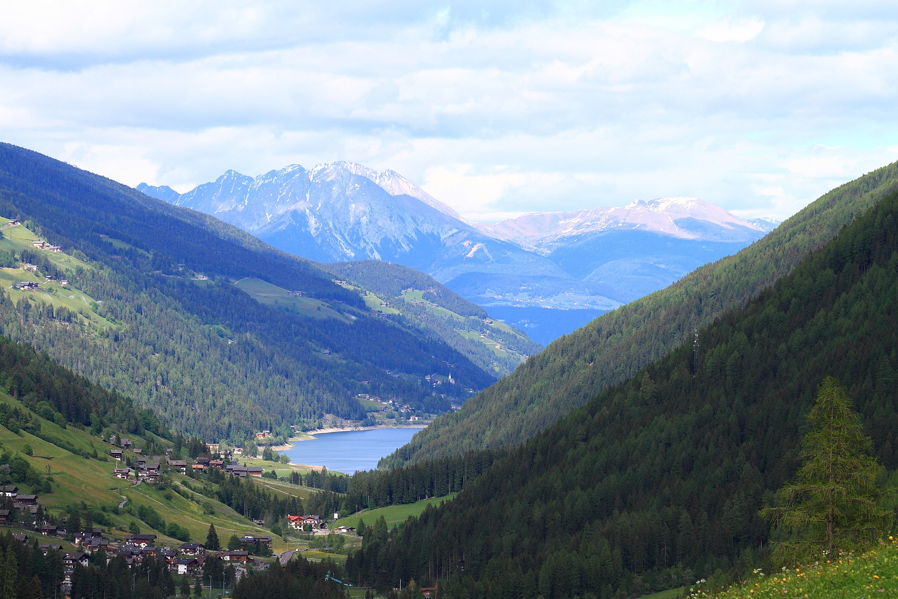 Daylight white balance .. better than the other version?